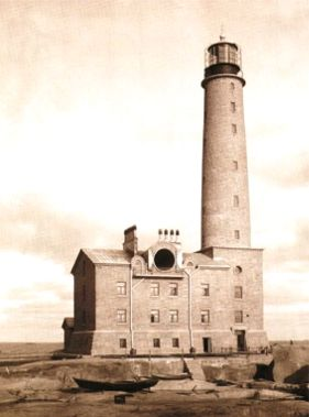 Bengtskär lighthouse 1906.